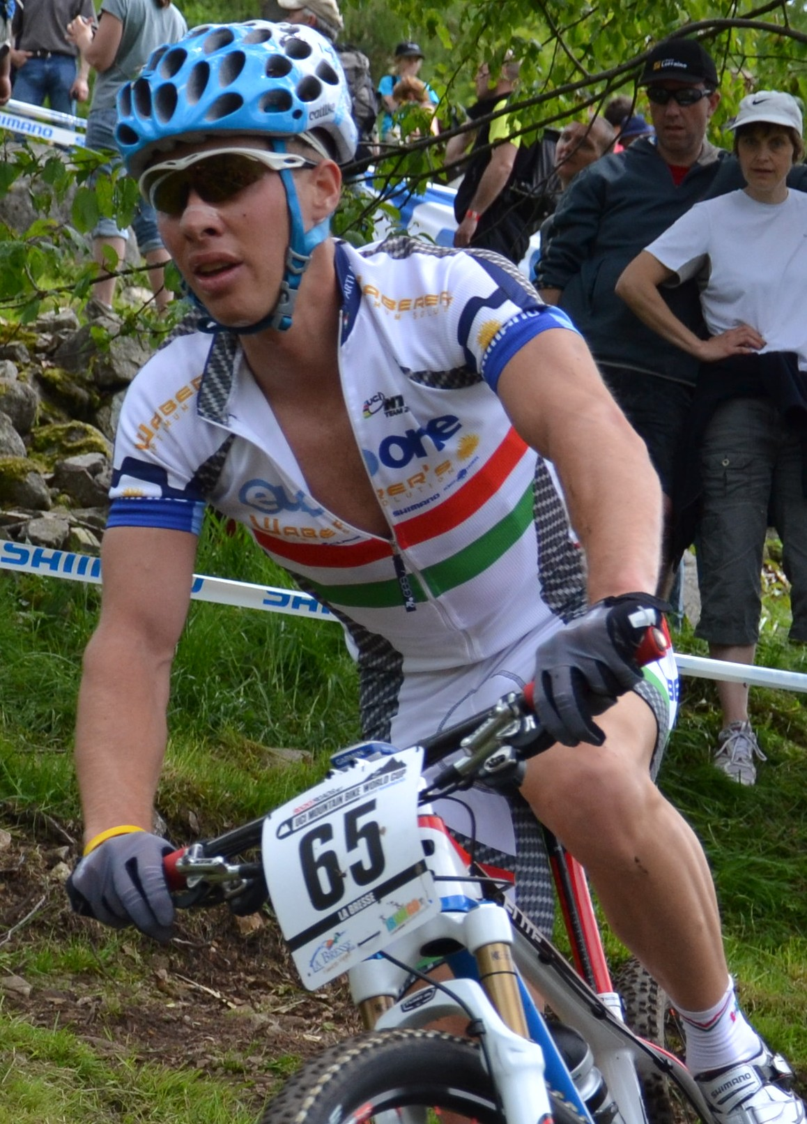 Andras Parti